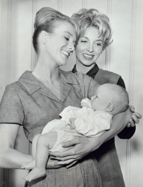 Photo of Inger Stevens and Beverly Garland from the television program The Farmer's Daughter.